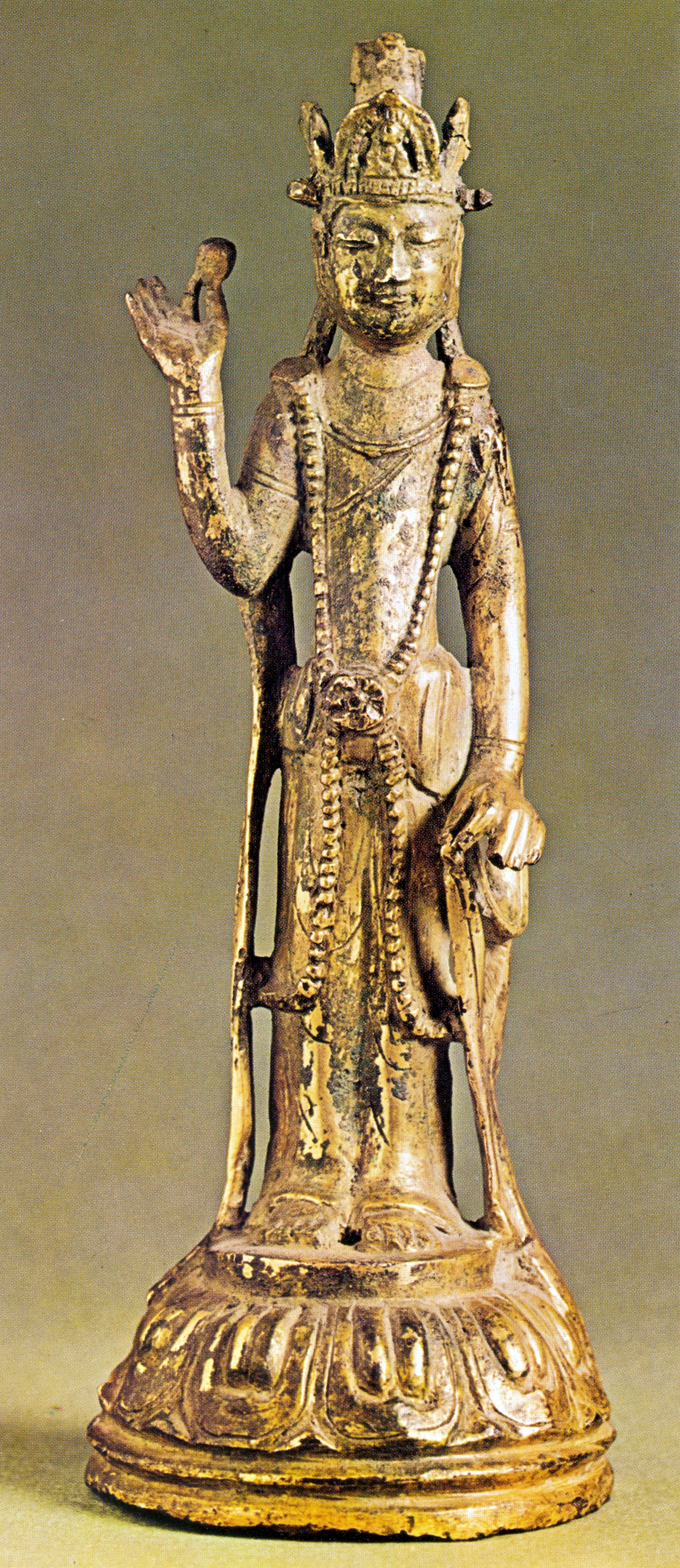 Standing Gilt-bronze Avalokiteshvara Bodhisattva from Gyuam-ri in Buyeo, Korea